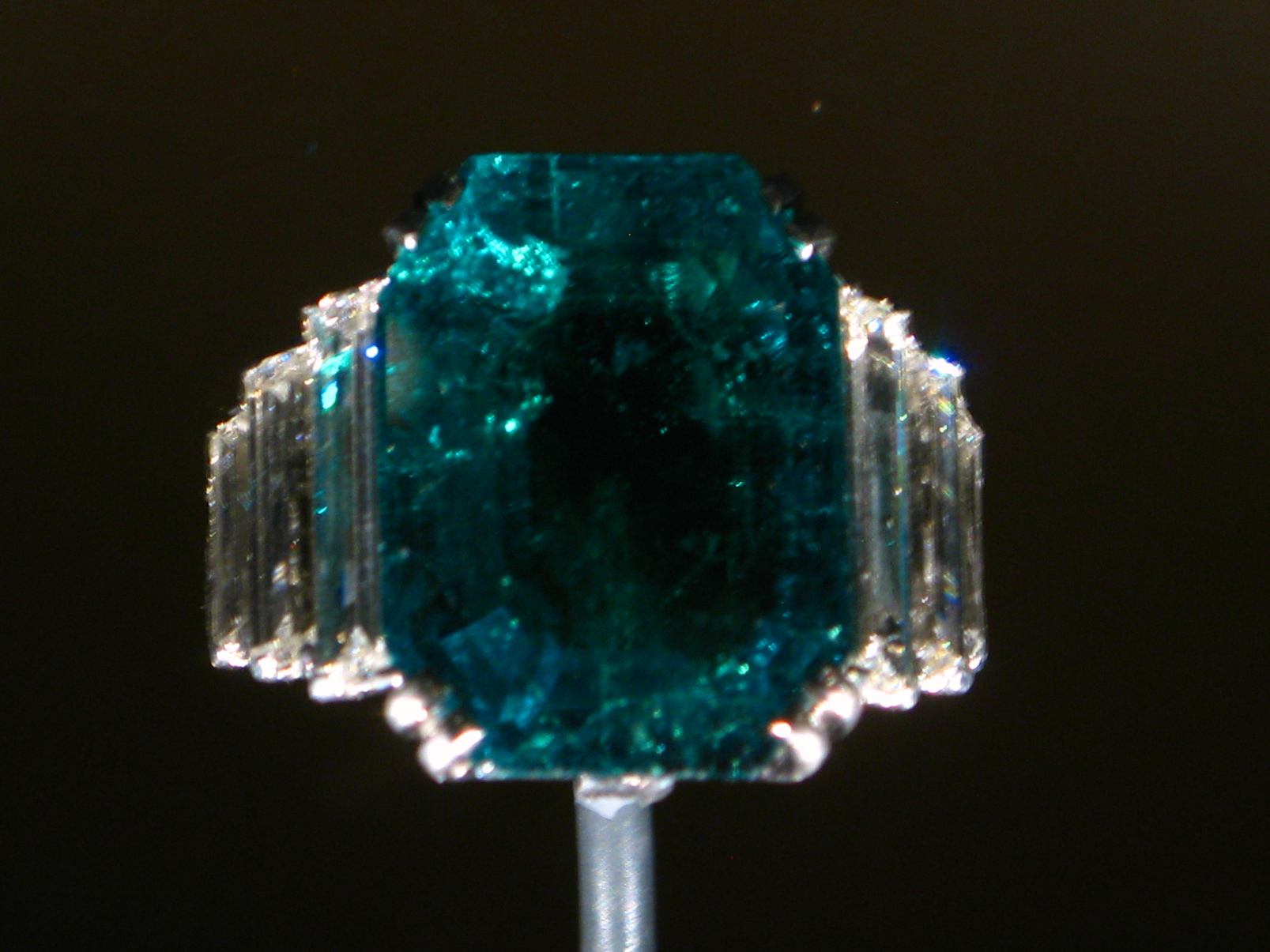 Maximilian Emerald Ring 21.04 carats Colombia The emerald was once set in a ring worn by Mexico's ill-fated emperor, Ferdinand Maximilian Joseph. An Austrian archduke crowned emperor of Mexico in 1864, he was executed just three years later. This ring was designed by Cartier, Inc.